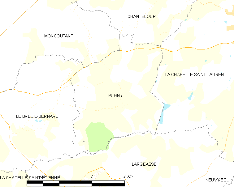 Map of French municipality Pugny